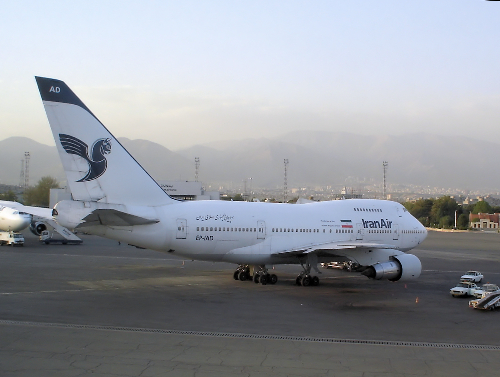 Iran Air Boeing 747SP at Mehrabad International Airport